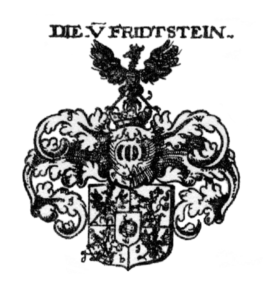 Coats of Arms of Friderich von Fridstein (Fridtstein), Knights of the H.R. Empire